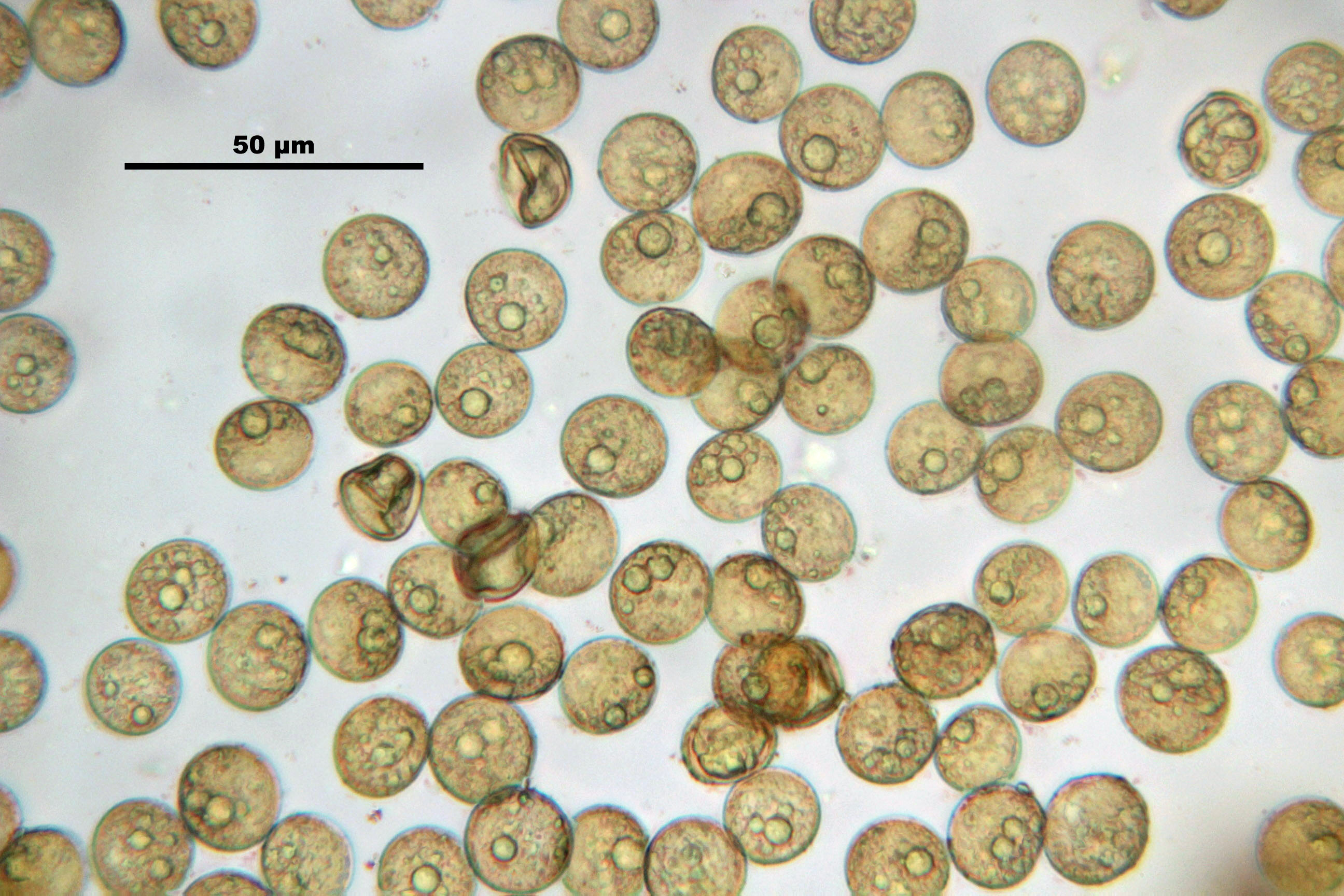 Funaria hygrometrica